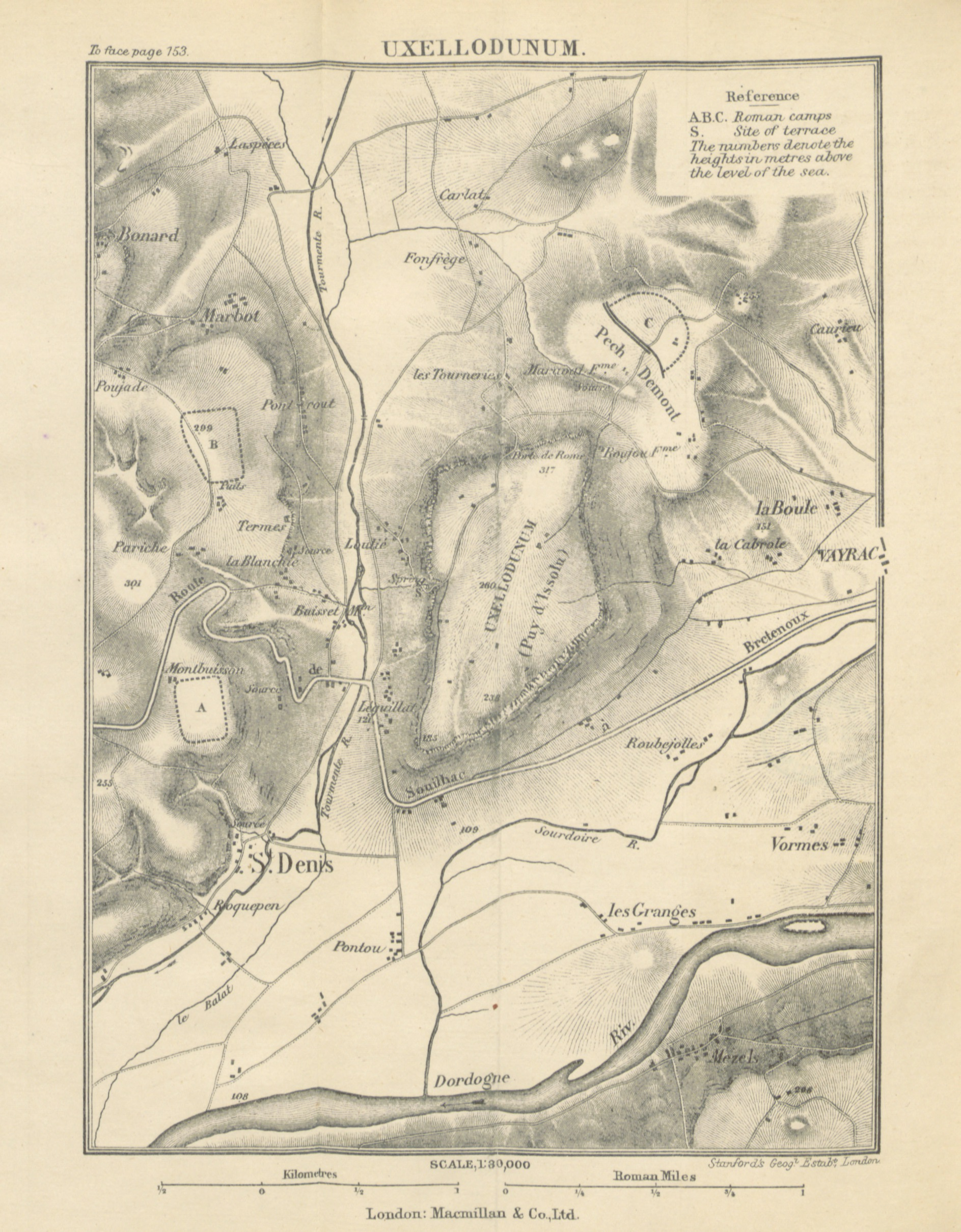 The 51 BC Siege of Uxellodunum, one of the last battles of the Gallic Wars.